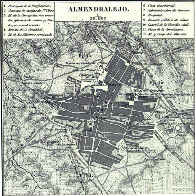 Map of Almendralejo by Francisco Coello